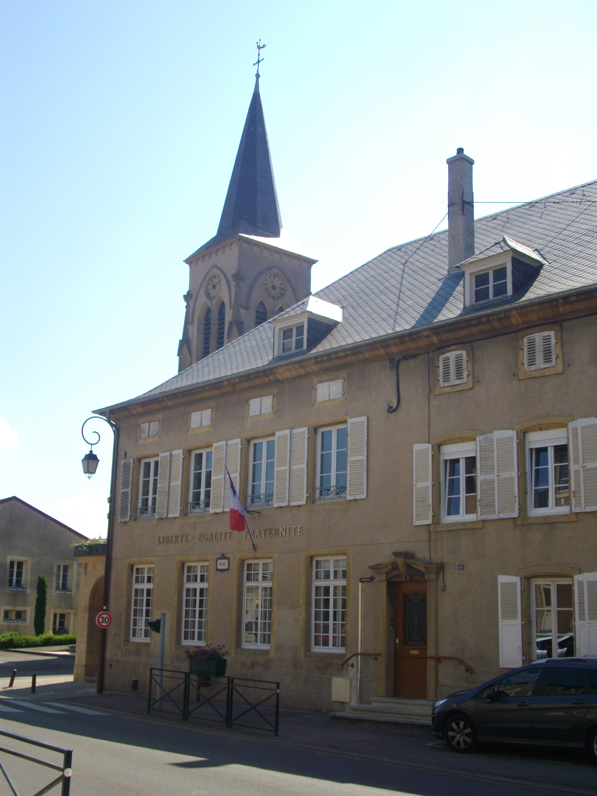 Town hall and church of Manom (Moselle, France)